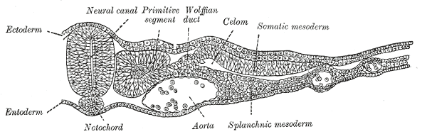 Transverse section of a chick embryo of forty-five hours€™ incubation. (Balfour.)